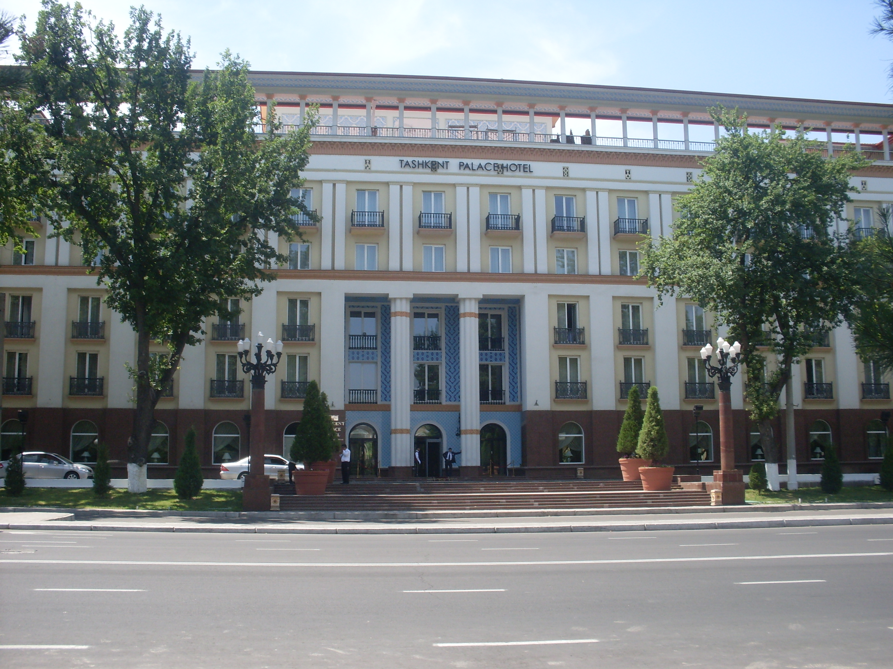 Hotel "Tashkent"